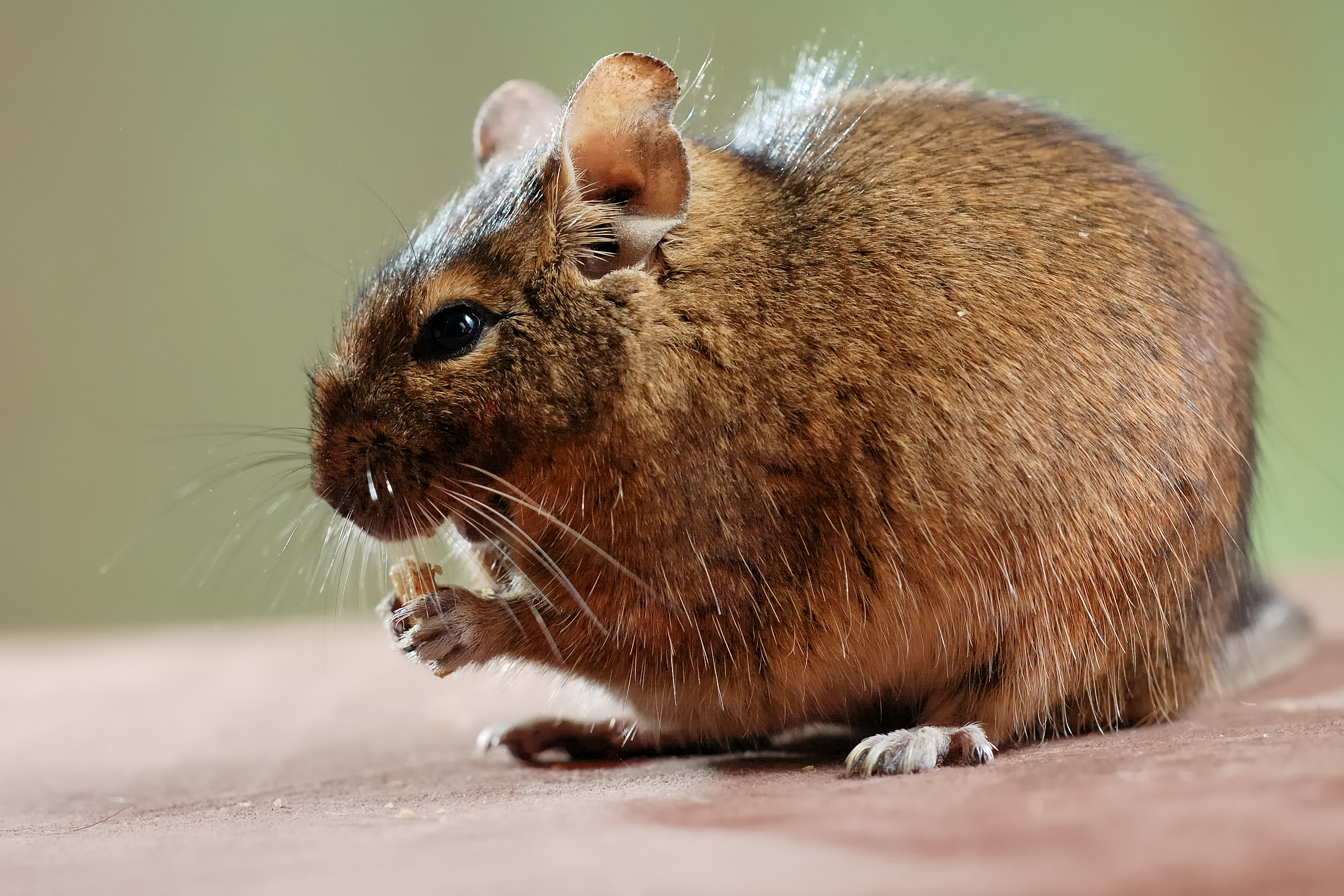 A single degu (Octodon degus) eating a piece of dried banana in front of a green background.